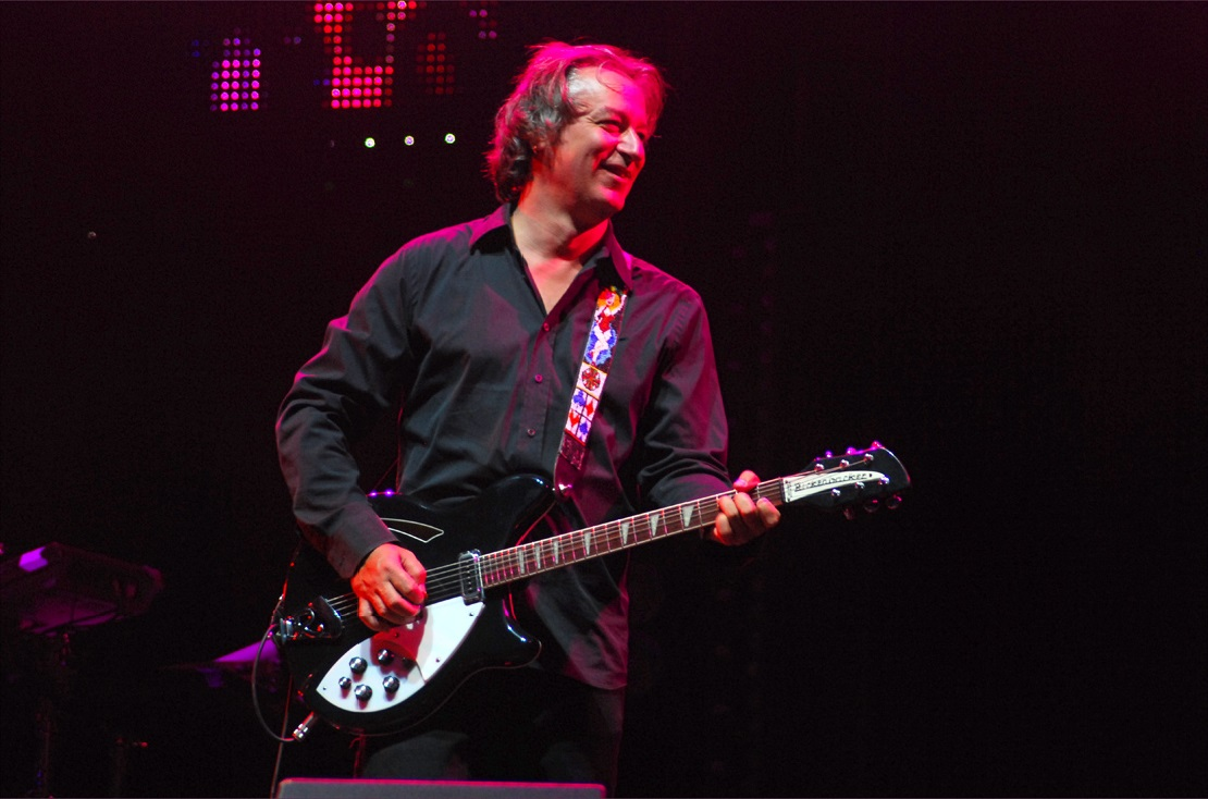 Peter Buck in an R.E.M. concert in Manchester